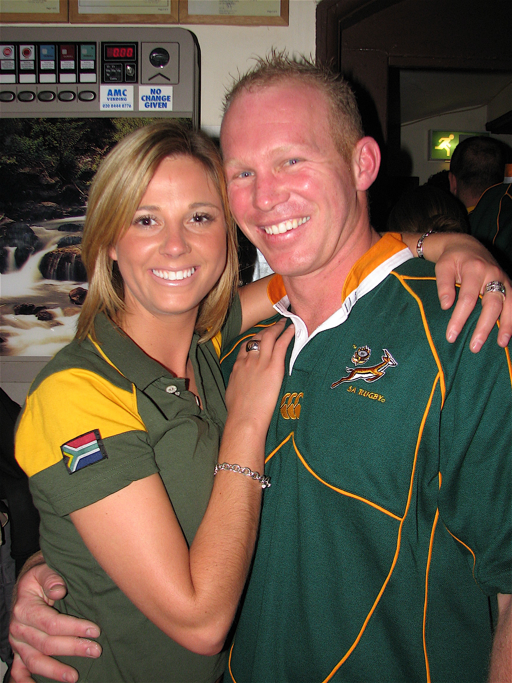 South Africa Rugby World Cup 2007 Winners Fiesta in London